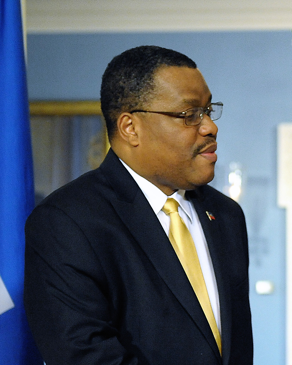 U.S. Secretary of State Hillary Rodham Clinton meets with Haitian Prime Minister Garry Conille at the U.S. Department of State in Washington, D.C., on February 8, 2012. [State Department photo/ Public Domain]